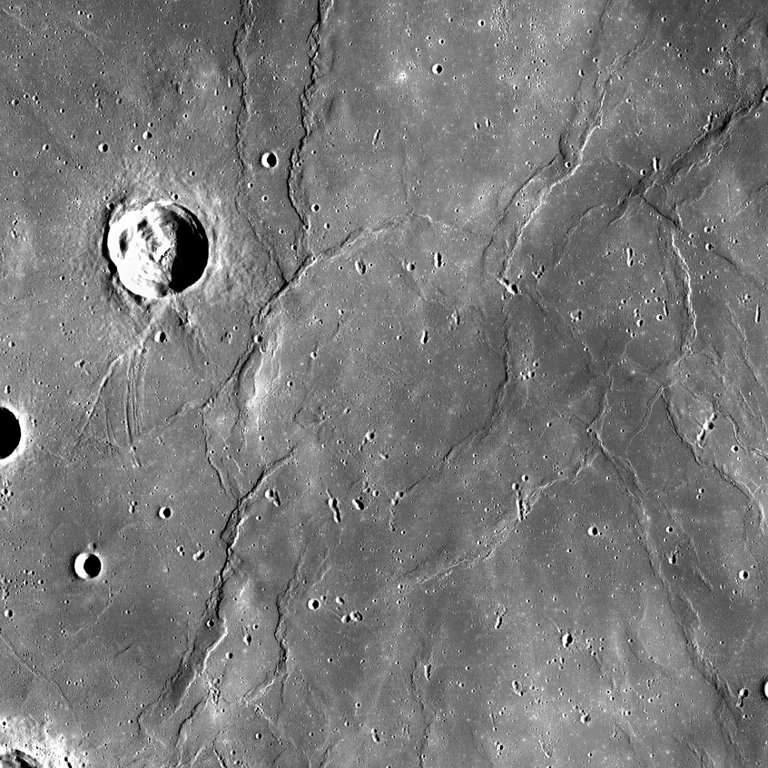 Lamont: a peculiar complex of wrinkle ridges (probably, a submerged impact crater) on the Moon, in Mare Tranquillitatis. A sharp crater in upper left is Arago. Mosaic of photos by Lunar Reconnaissance Orbiter, made with Wide Angle Camera. Contrast is increased. Size of the image is 200×200 km, north is up.